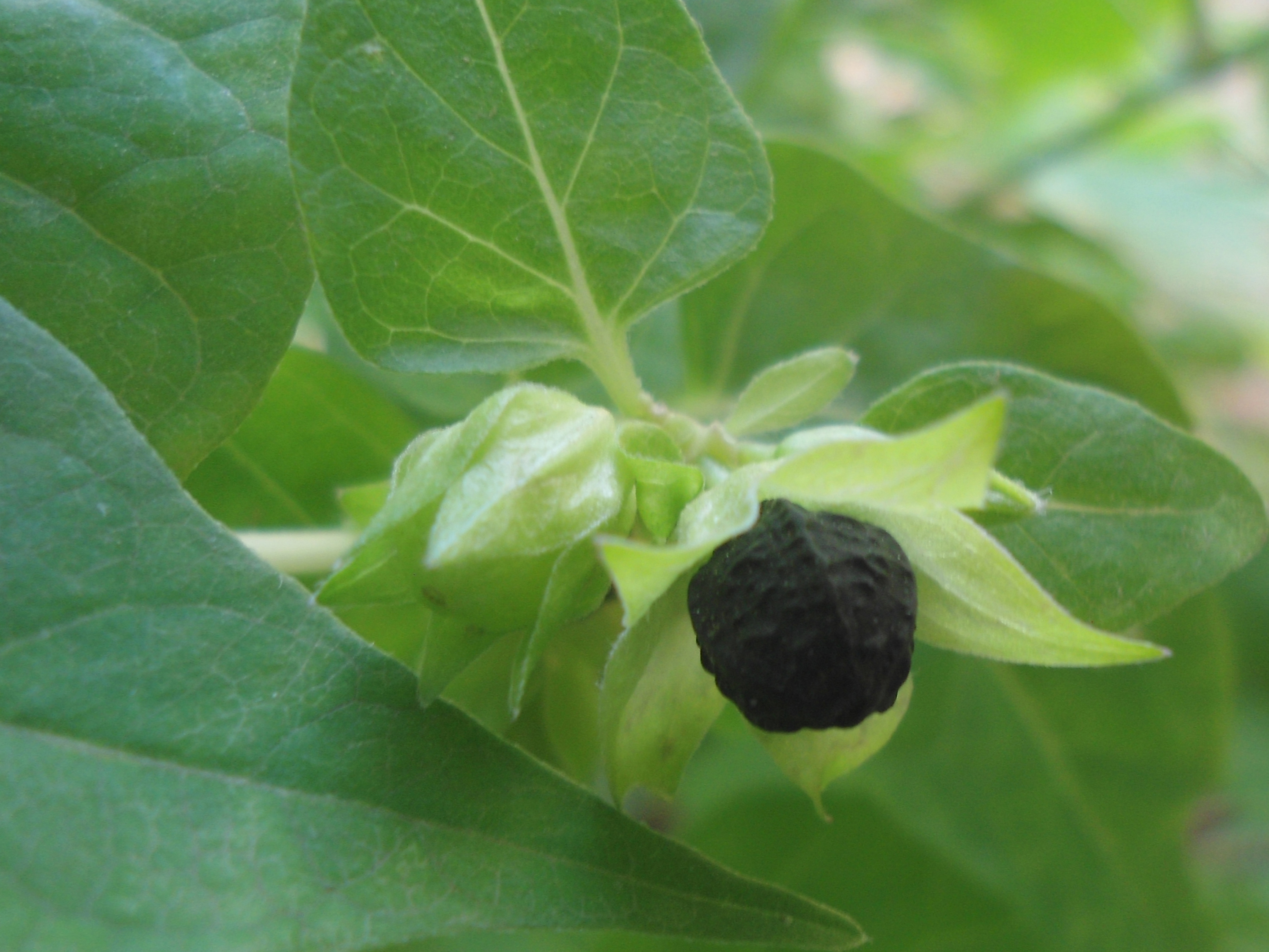 (Mirabilis jalapa) seed closeup at Bandlaguda, Rangareddy district, Andhra Pradesh